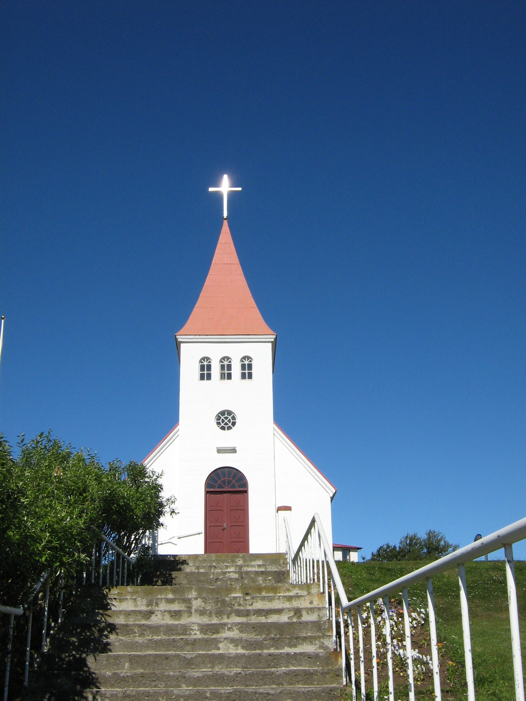 Hríseyjarkirkja í Hríseyjarprestakalli. The Curch of Hrísey in Eyjafjörður, Iceland.